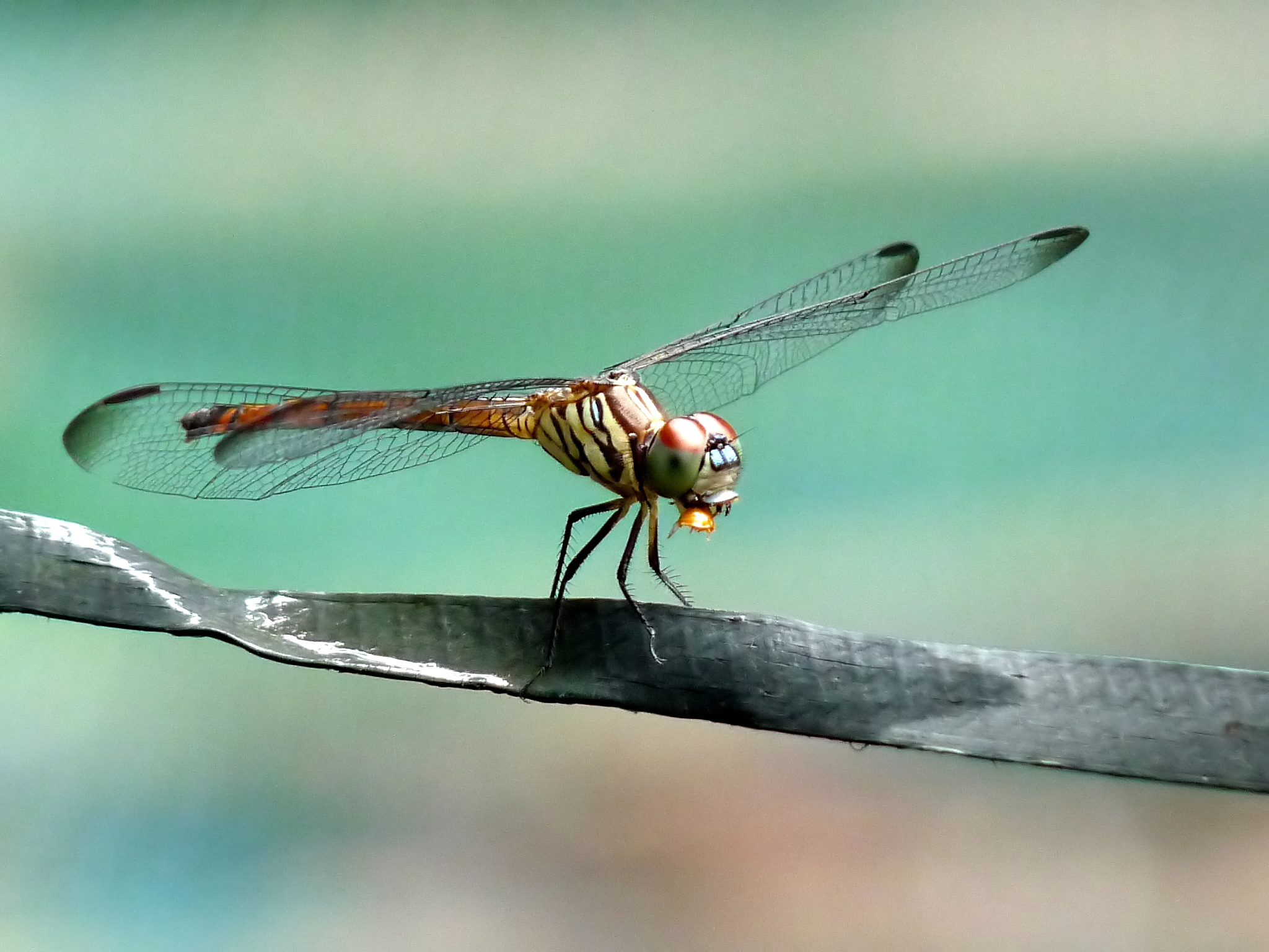 Asiatic Blood Tail (Lathrecista asiatica), female Lathrecista asiatica, Asiatic Blood Tail, is a species of dragonfly in family Libellulidae. It is the only species in its genus. The species is widespread, occurring from India to Australia. The male is identifiable with its bright red abdomen and black caudal appendages. The thorax is heavily pruinosed in grey/blue. The young male is quite different to that of the male. Its thorax isn't pruinosed allowing you to see the thoracic markings clearly and their abdomen is more of an orange colour not blood red. Also, the coloured wings tips are more obvious. The female is much paler than the male (more like the young male) and is easily mistaken for the extremely common Potamarcha congener. The markings on the thorax, however, are different and the thorax is more of an orange colour. It doesn't have large caudal appendages like P. congener either. Taken at Kadavoor, Kerala, India.